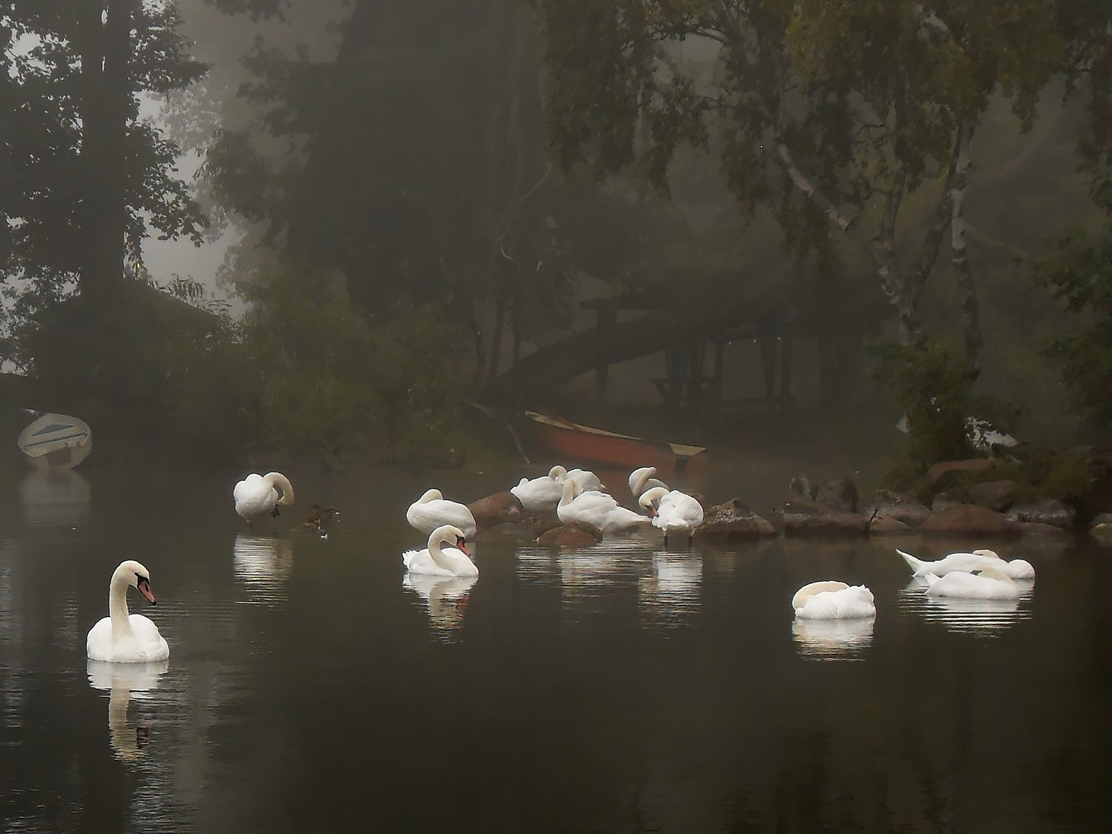 Swans in the mist